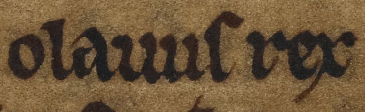 An excerpt from folio 35v of British Library MS Cotton Julius A VII (the Chronicle of Mann). The excerpt reads in Latin "Olavus rex", and refers to Óláfr Guðrøðarson, King of the Isles (died 1153).